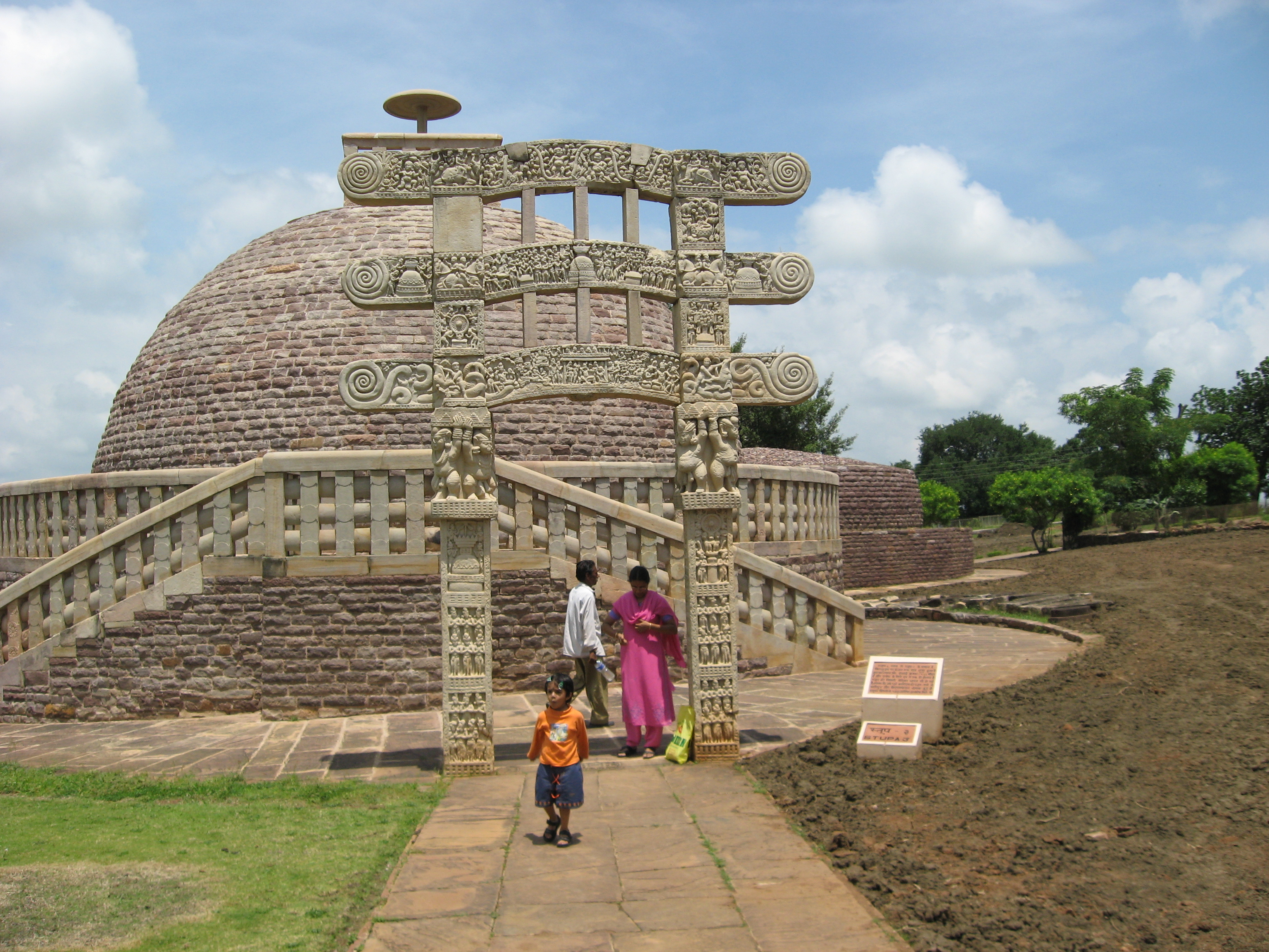 Stupa n° 3. Gana-s on the unique torana, looking south. Sanchi